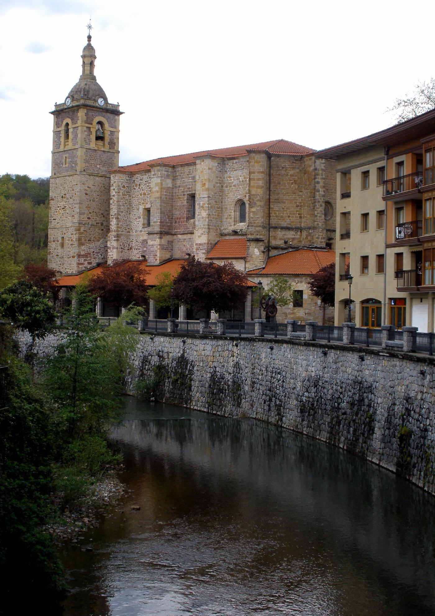 El río Agauntza, a su paso por el centro de Lazkao. Al fondo, la iglesia parroquial de San Miguel (Guipúzcoa, País Vasco, España)